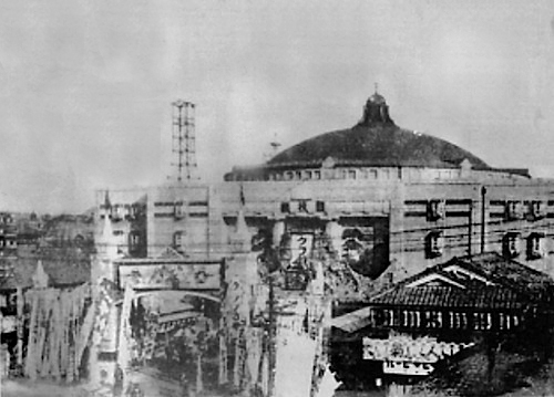 The first Ōsaka Kokugikan